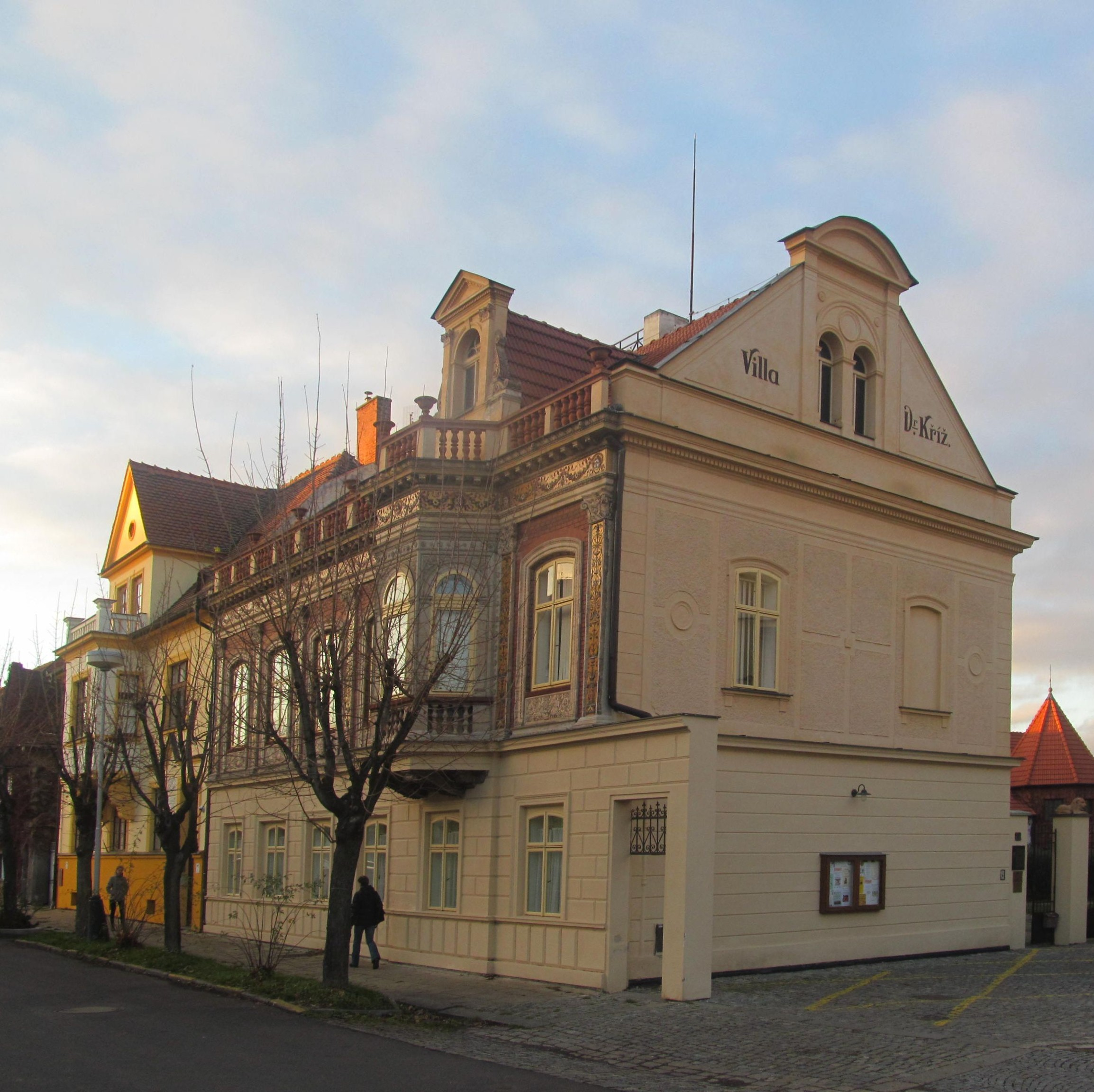 Villa Kříž - exhibition house of the Municipal museum in Žatec